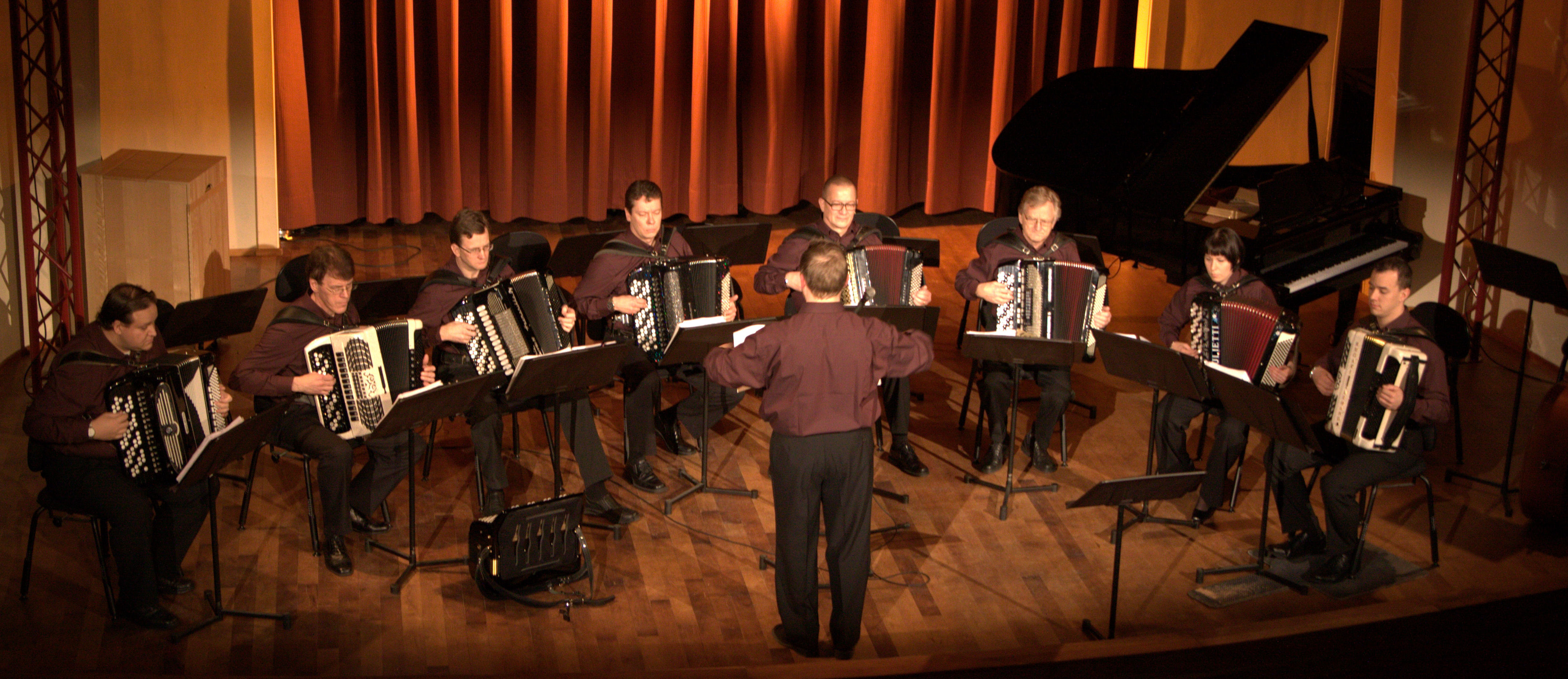 Salon Seudun Harmonikkaorkesteri's group ykkösharmonikat